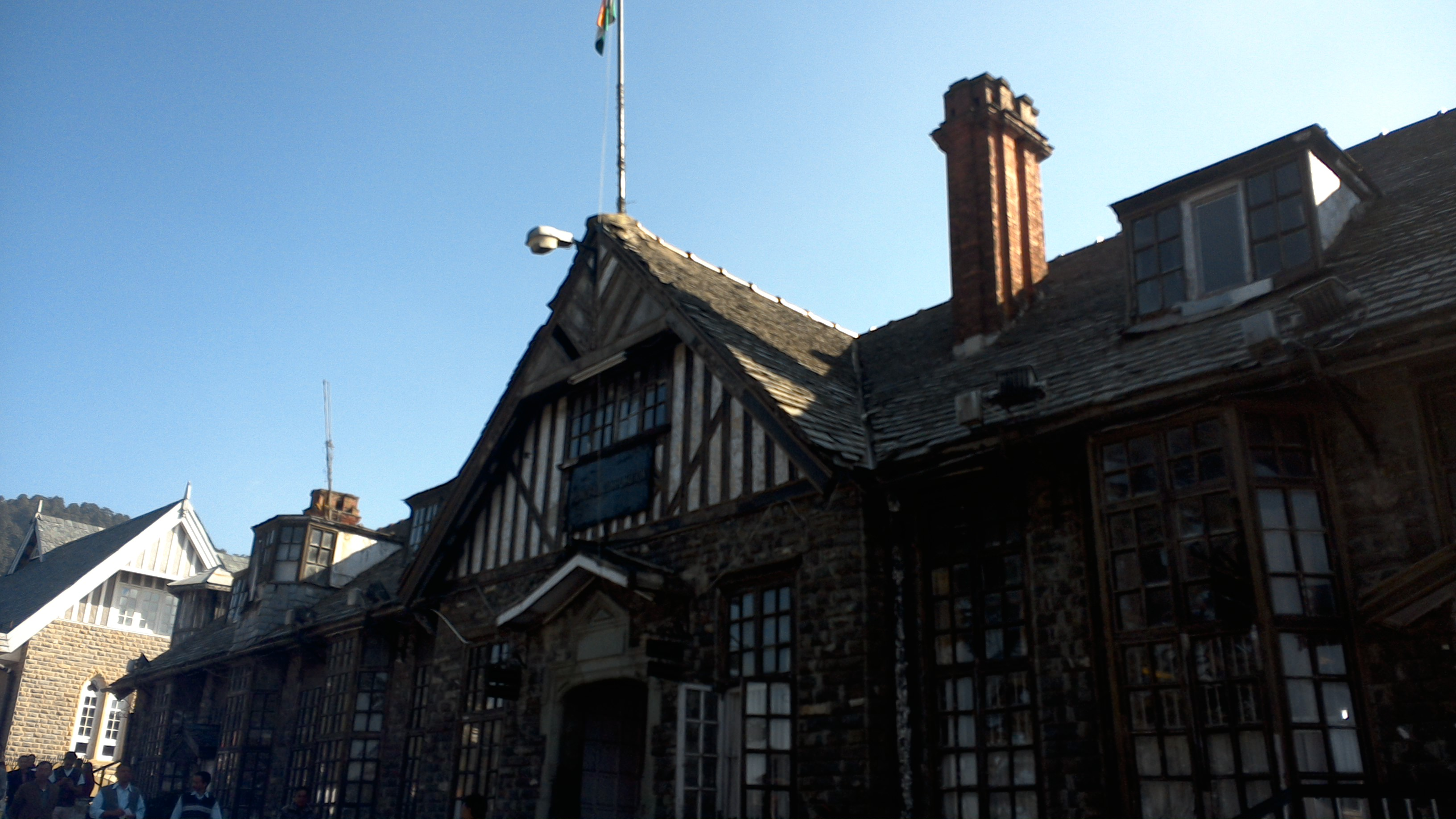 Own Work